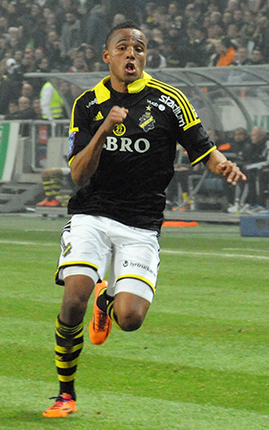 Niclas Eliasson, AIK